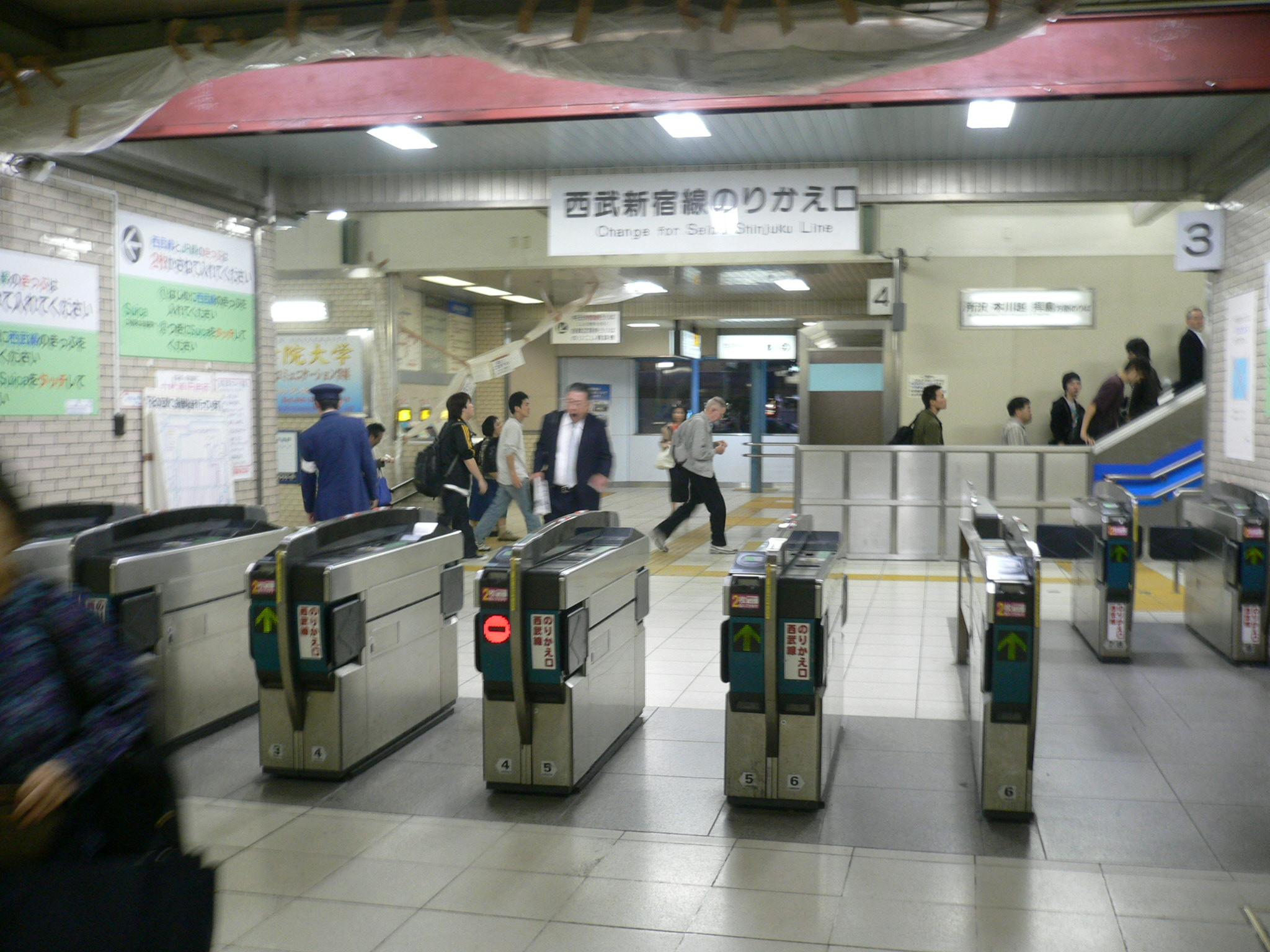 Takadanobaba Station (Takadanobaba Station), Shinjuku W, Tokyō M.